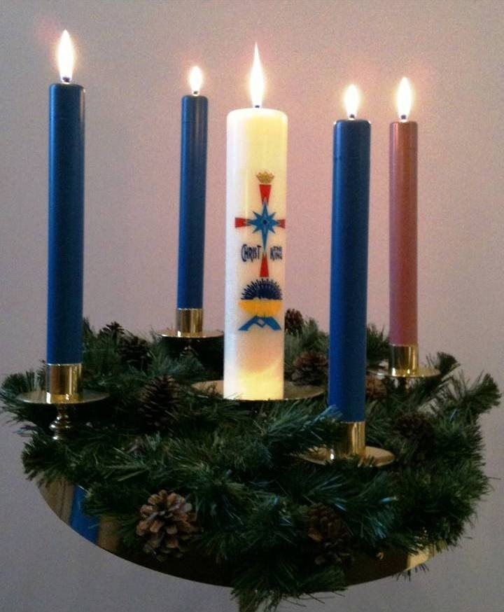 Lutheran Advent wreath with one rose and three blue candles around a decorated white central candle, all lit